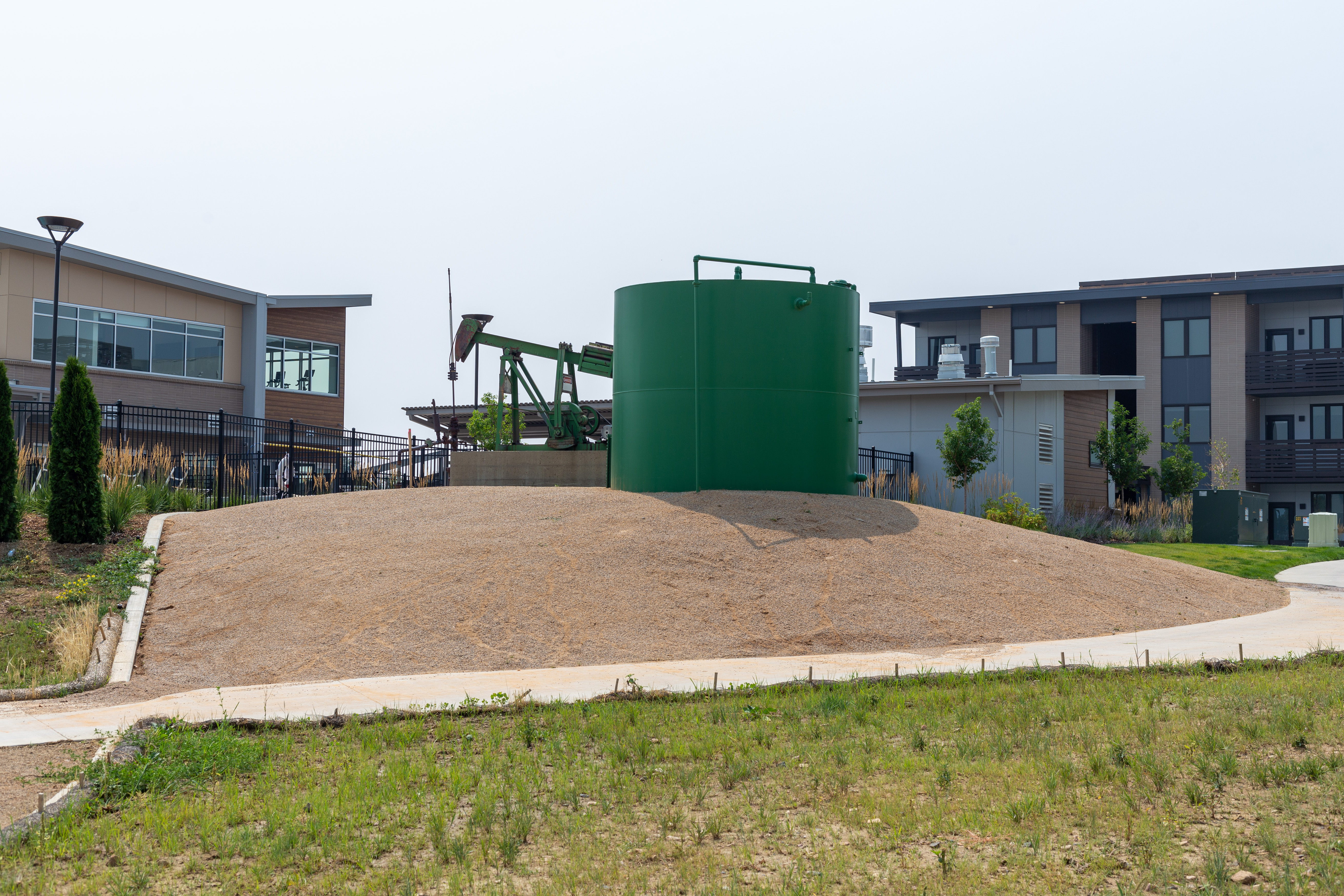 The historic McKenzie Well sits inside its new housing development.